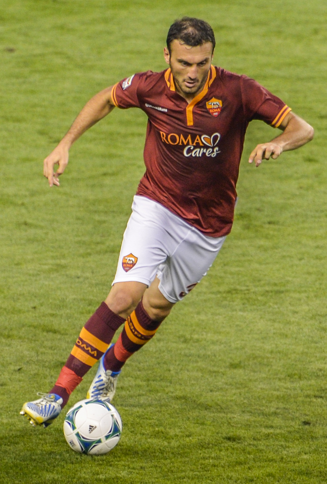 Vasilia Torosidis playing down the right wing for his club A.S. Roma against the MLS All Stars at Livestrong Sporting Park, Kansas City, Kansas on 31JUL2013.